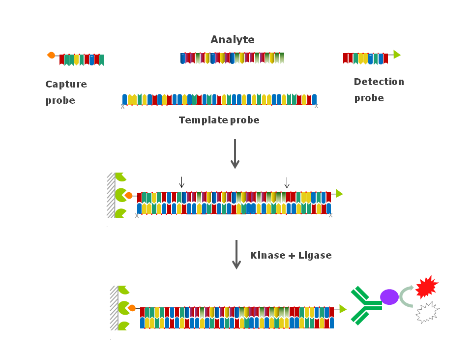 This is the schematized Dual Ligation Assay as described in Tremblay, Guy; Khalafaghian, Garinée; Legault, Julie; Bartlett, Alan (March 2011), "Dual ligation hybridization assay for the specific determination of oligonucleotide therapeutics", Bioanalysis 3 (5).